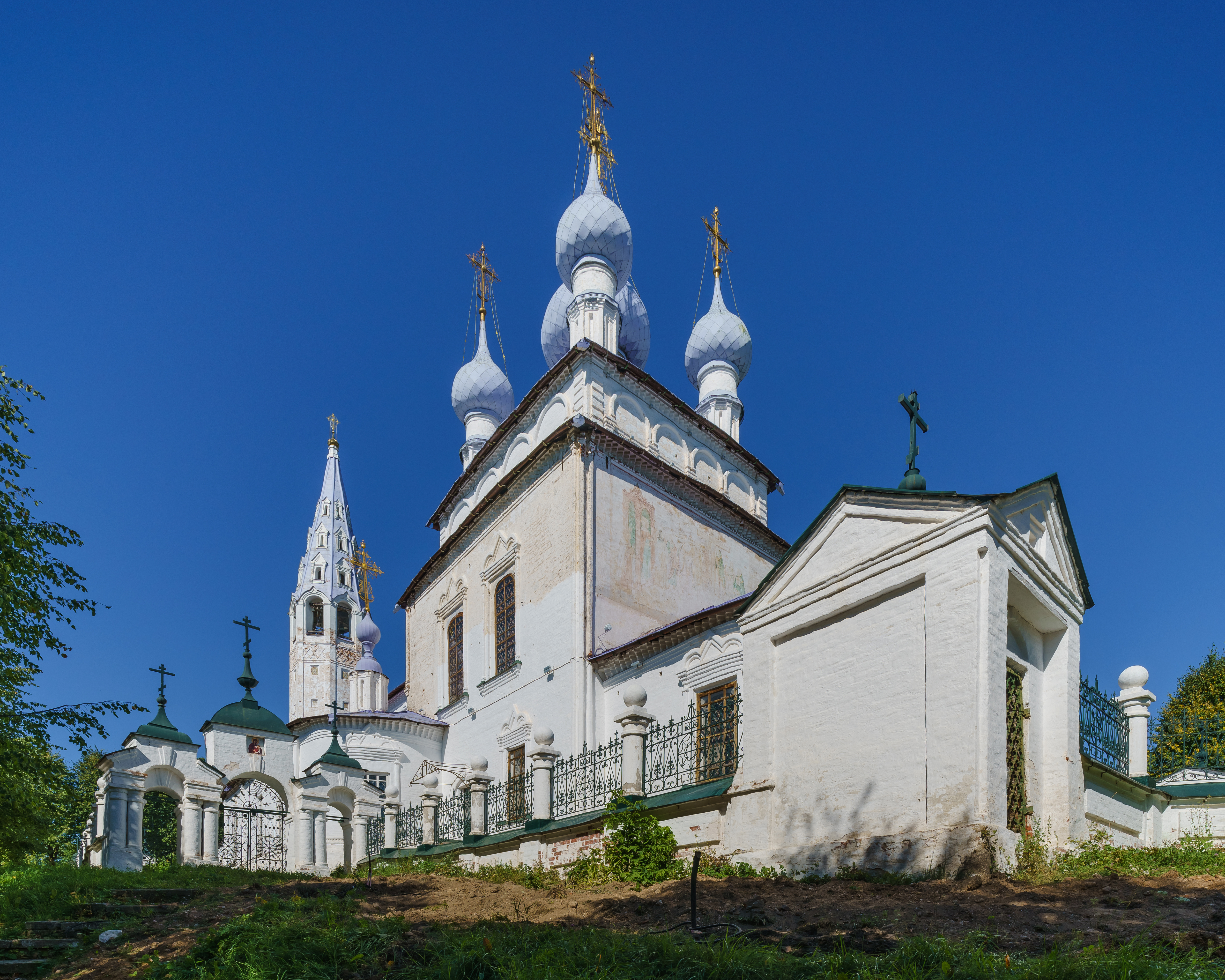 Church of the Descent from the Cross in Palekh, Ivanovo Oblast, Russia.